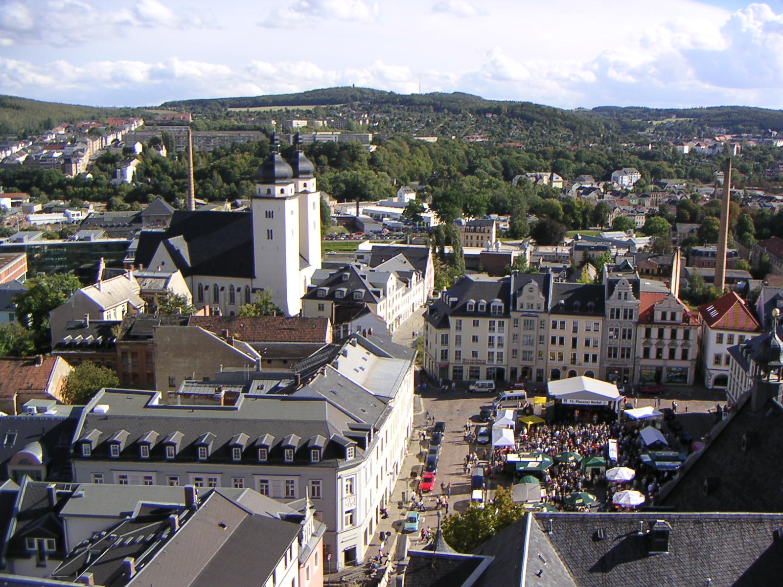 View from the tower of the town hall of Plauen, Saxony. Old market, St. John's church and Kemmler can be seen.